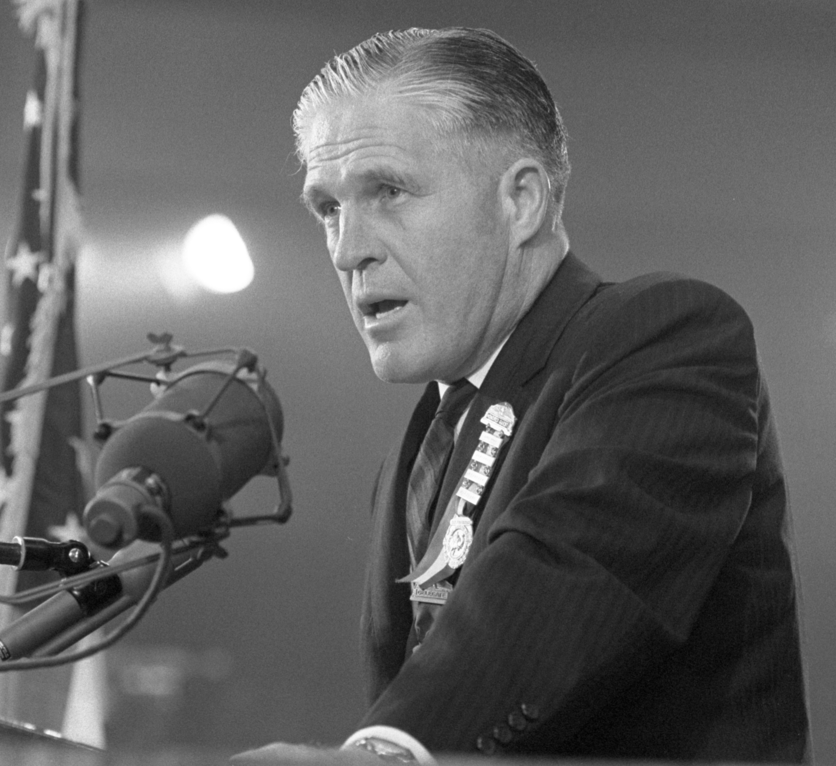 Michigan governor George Romney speaking at the 1964 Republican National Convention in San Francisco]